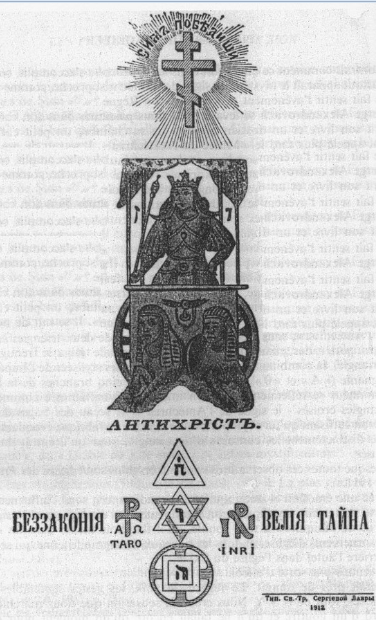 this imagem tratad of sião.